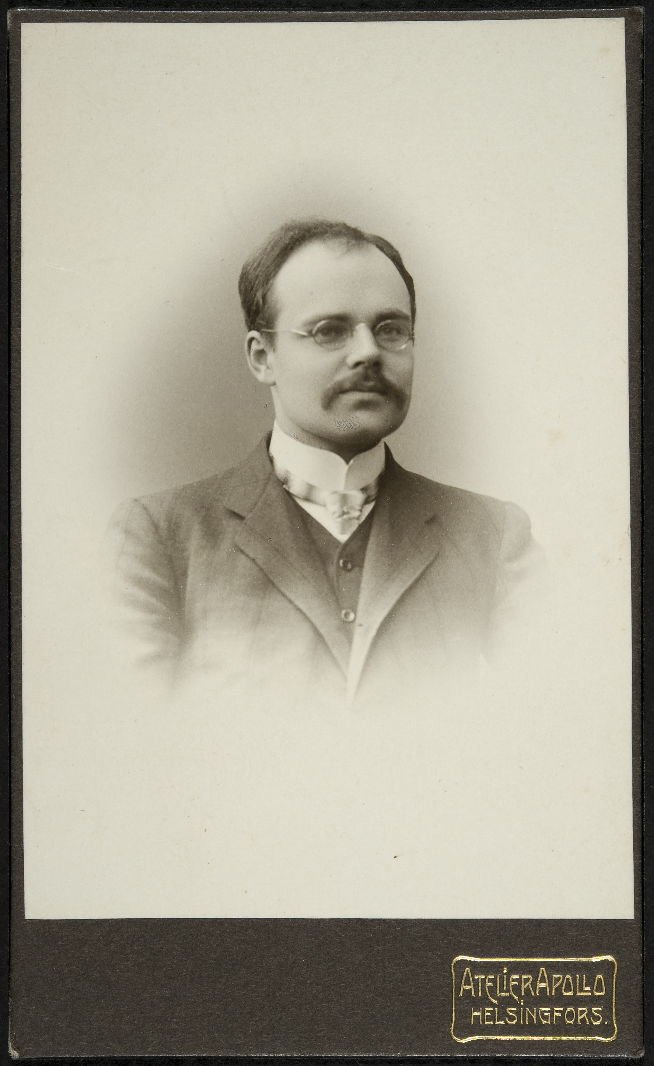 Photograph of the Finnish political scientist Karl Robert Brotherus (1880–1949).